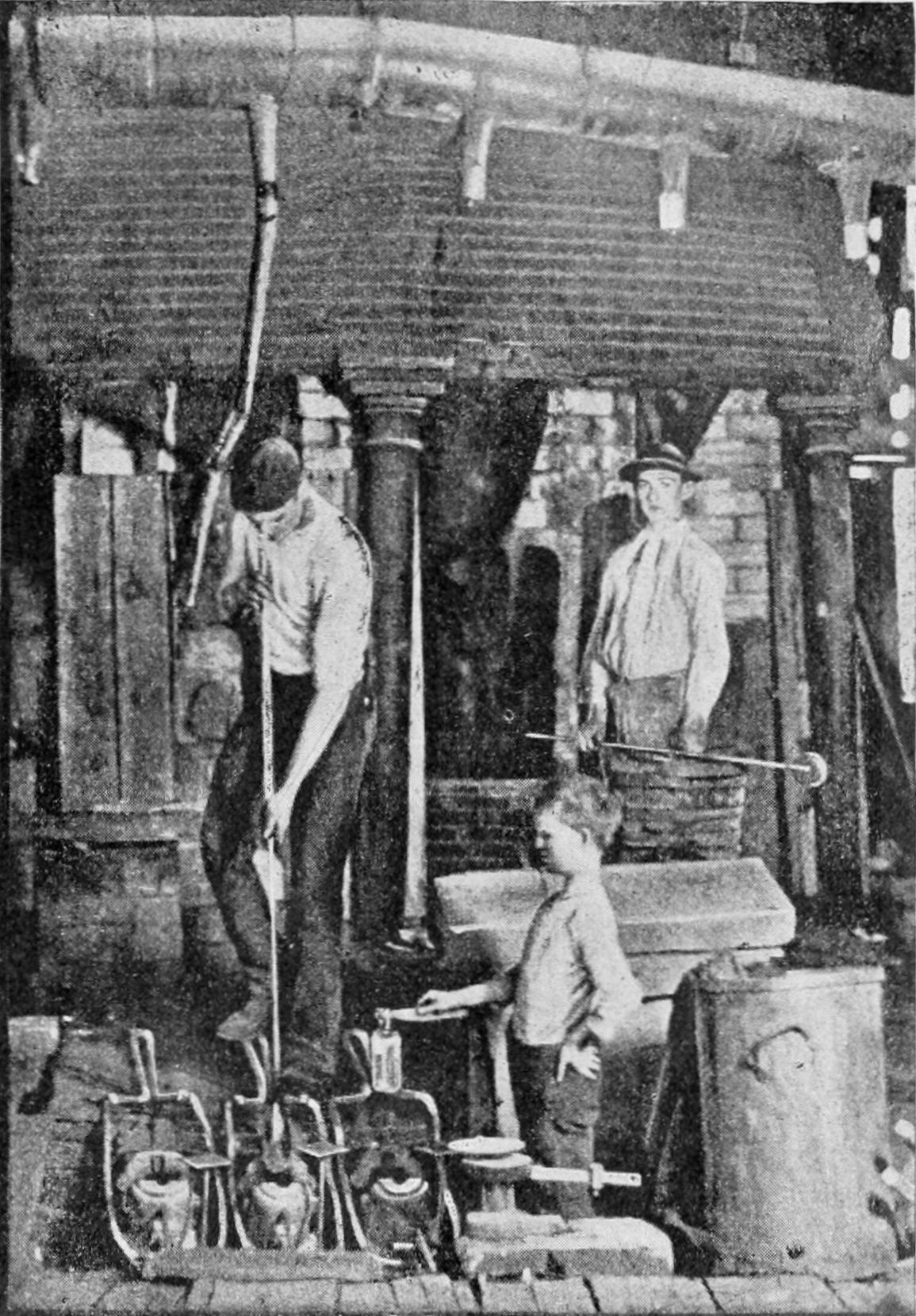 Putting the bottle in the mold before the final blowing